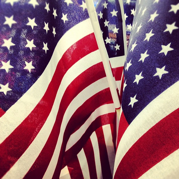 American Flags 8285648189 o